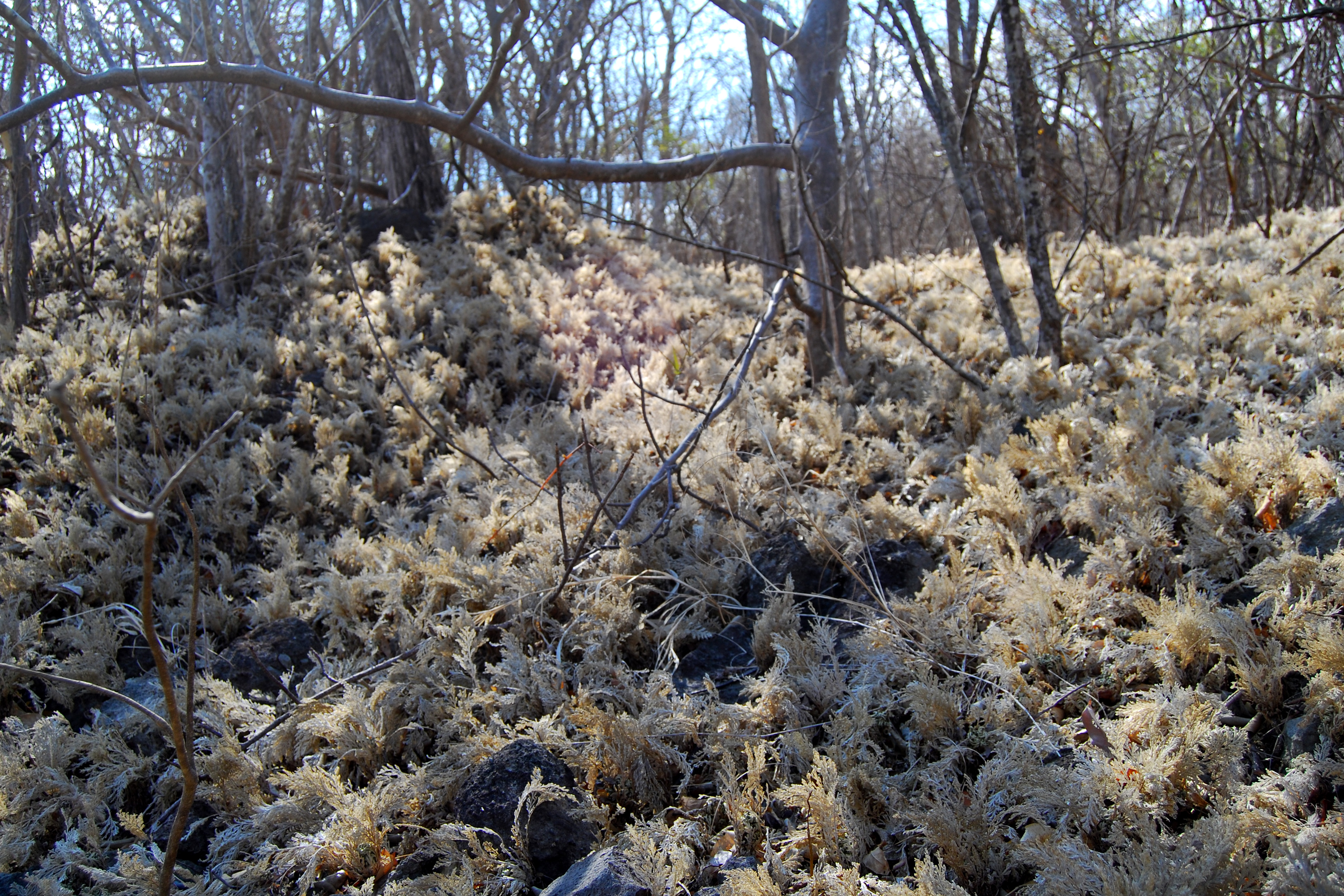 Tropical dry broadleaf forest habitat. In Santa Rosa National Park, Guanacaste Province, northwestern Costa Rica.